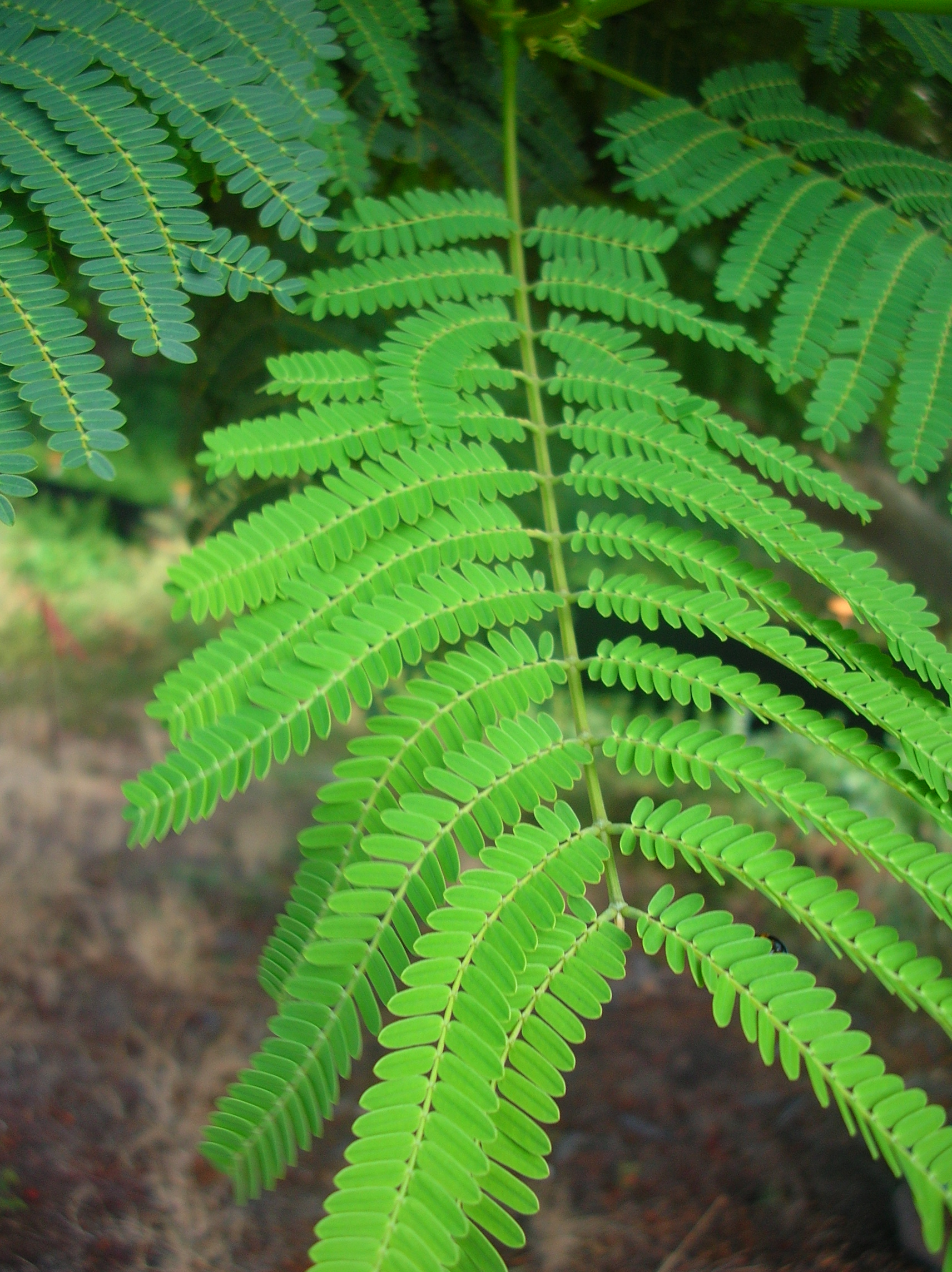 Delonix regia (leaves). Location: Maui, Kahului Airport